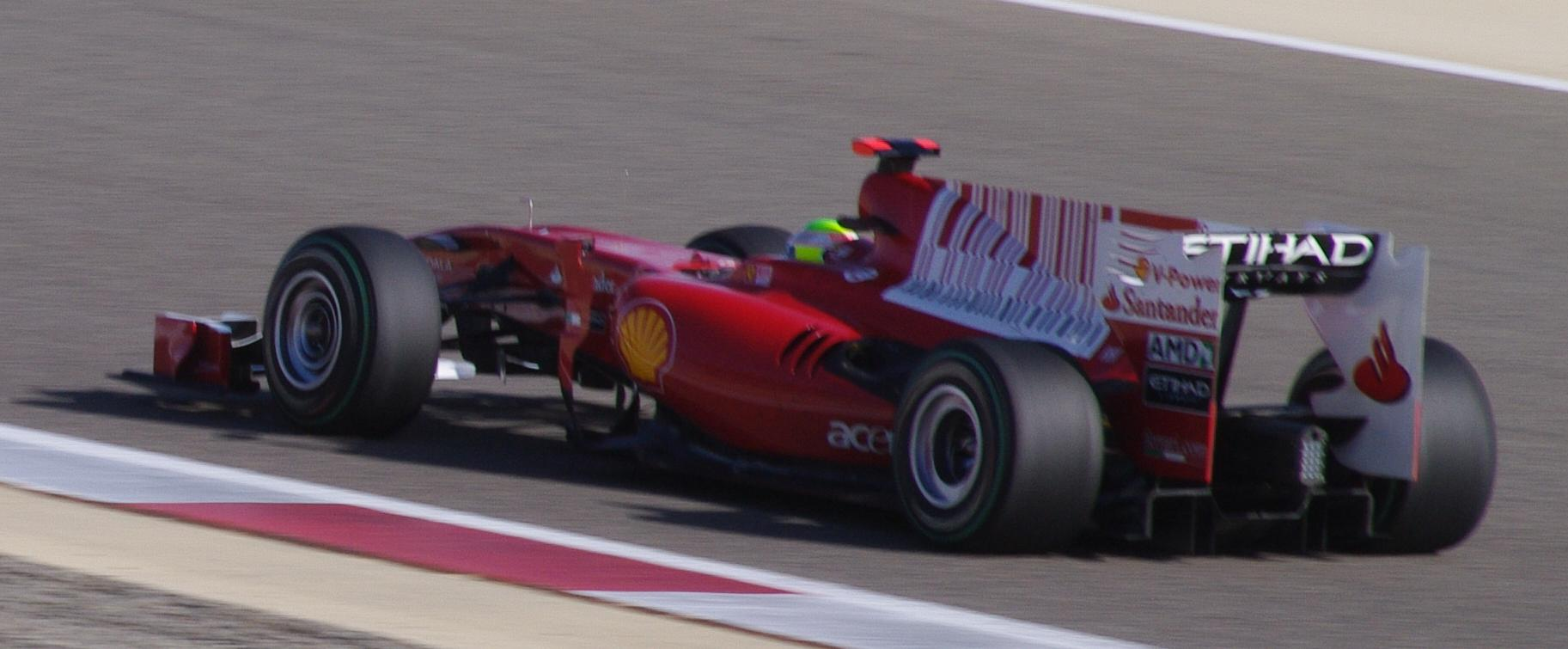 Felipe Massa driving for Scuderia Ferrari at the 2010 Bahrain Grand Prix.